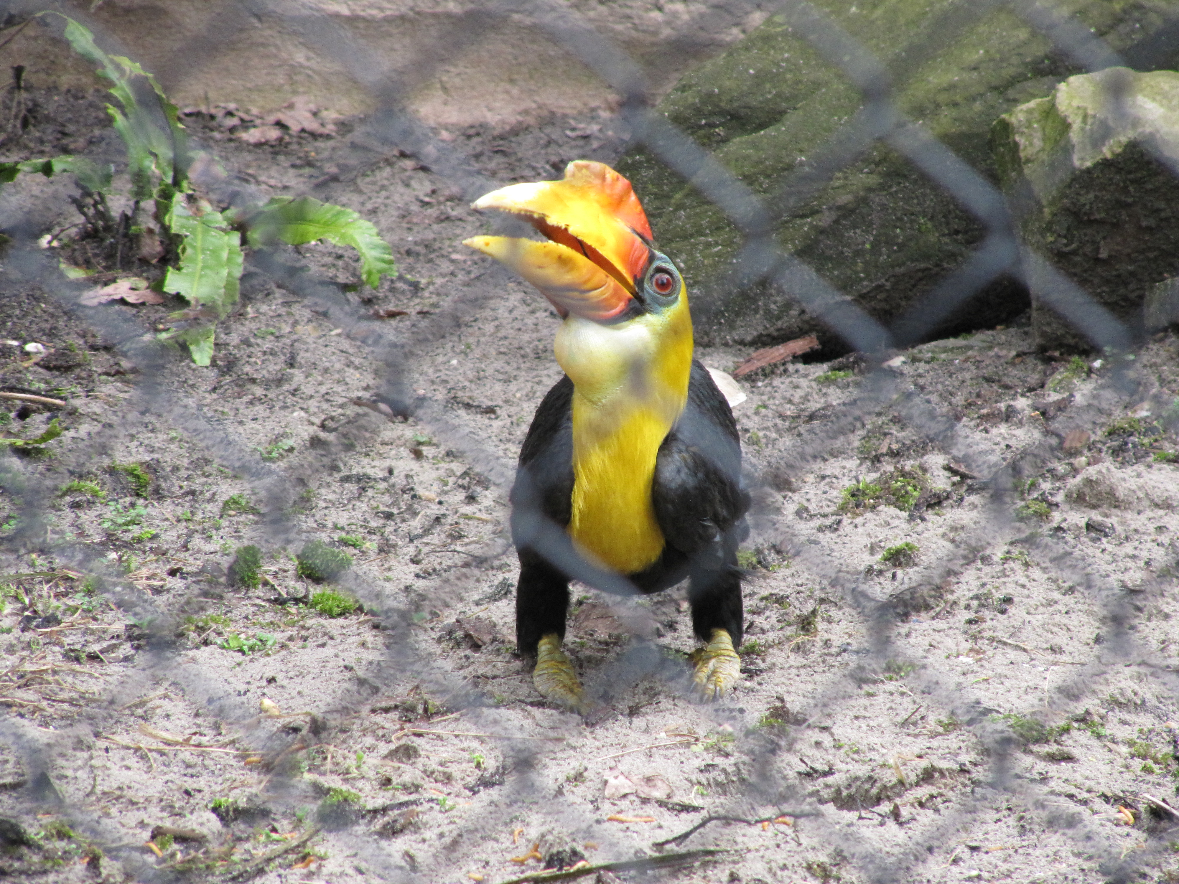 Aceros corrugatus at Ouwehands Dierenpark